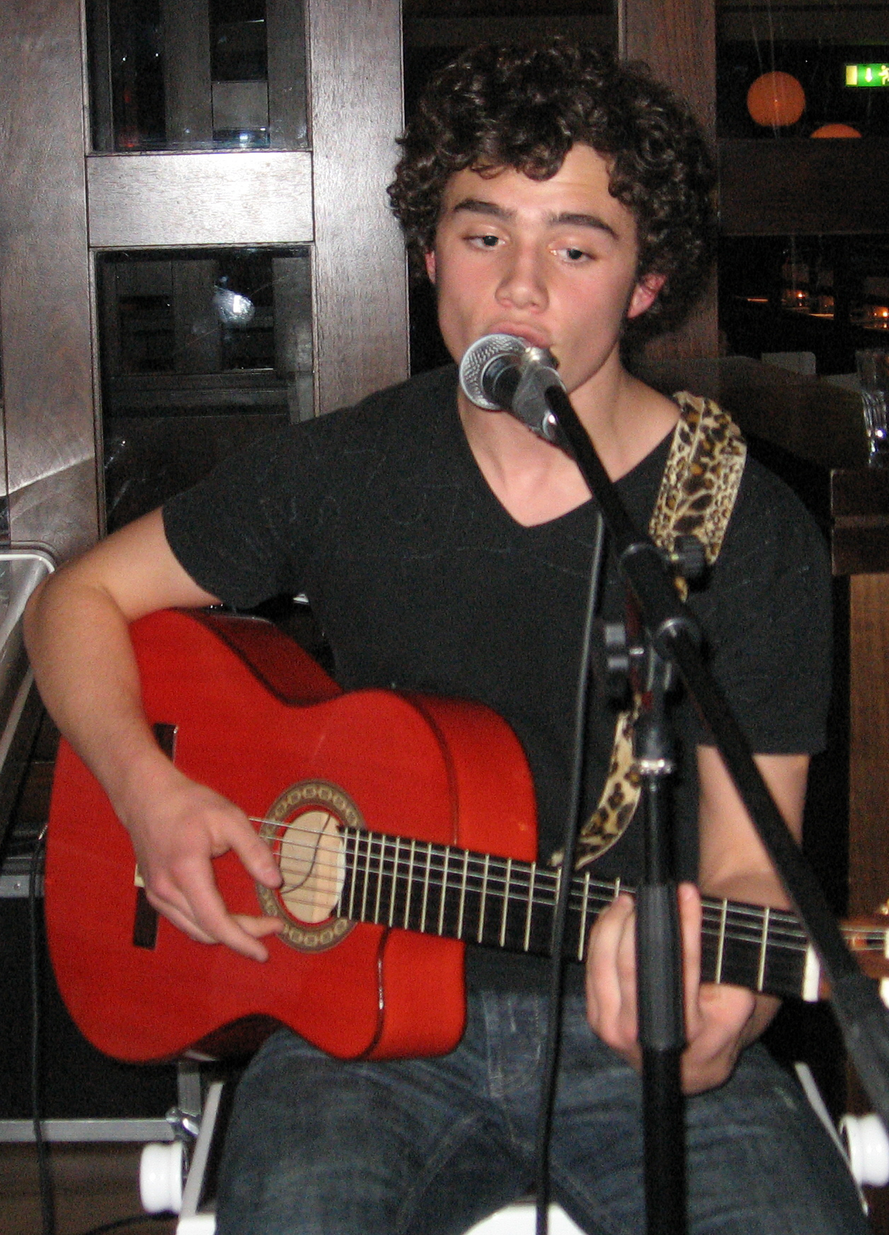 Toby Sebastian provided the musical entertainment